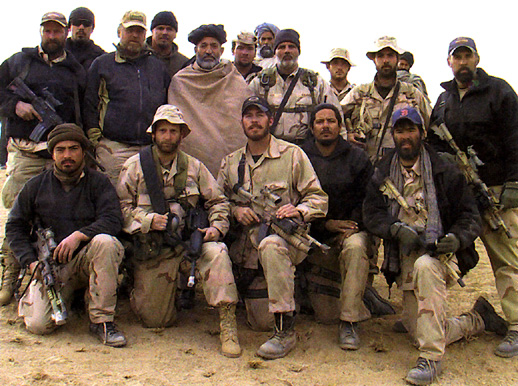 Hamid Karzai with U.S. Special Forces Operational Detachment Alpha 574 during Operation Enduring Freedom in 2001.